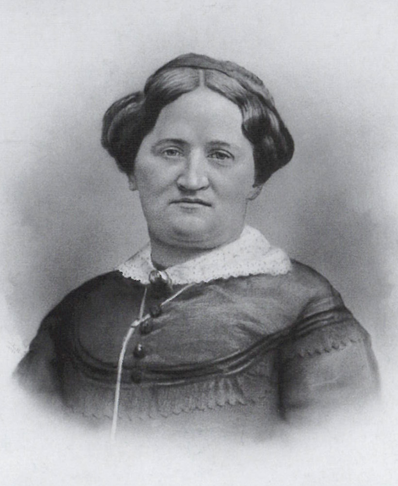 Auguste Löber (born as Auguste Feige) (1824–1897), German benefactor and founder of the Foundation Auguste-Stiftung in Cottbus, Germany.